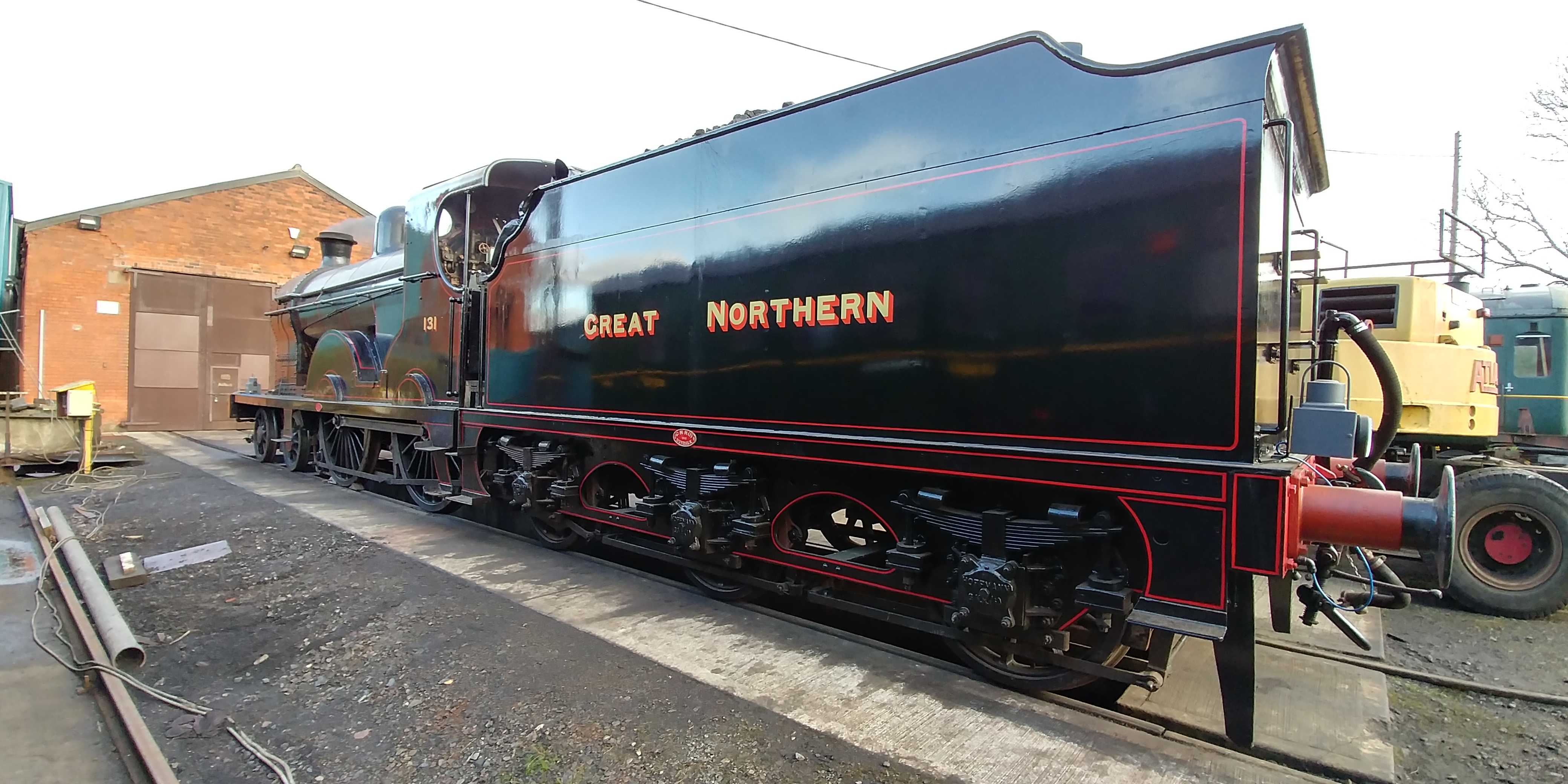 GNR(I) Qs-Class 131 with new build tender 37 at Whitehead 18/11/2017